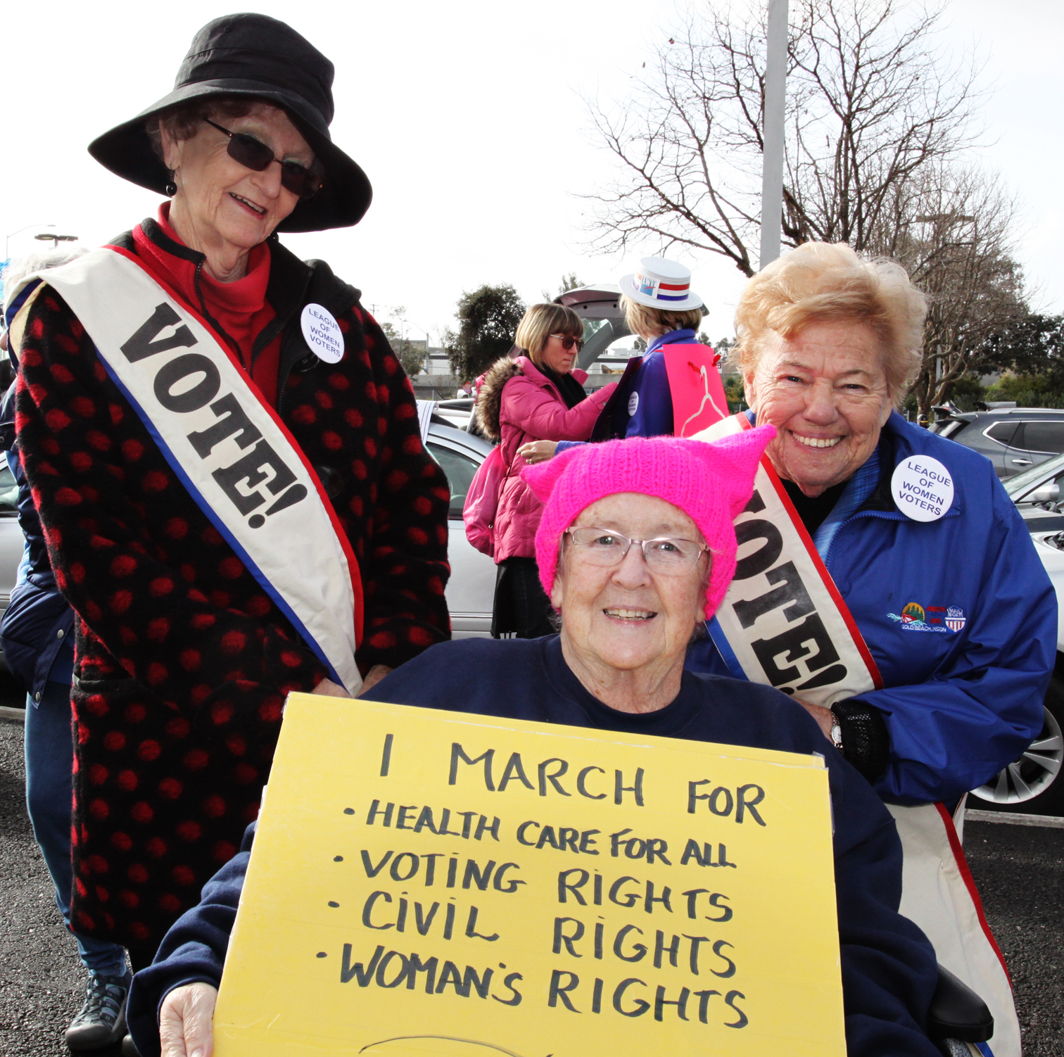 Photo of participants at the Women's March in California